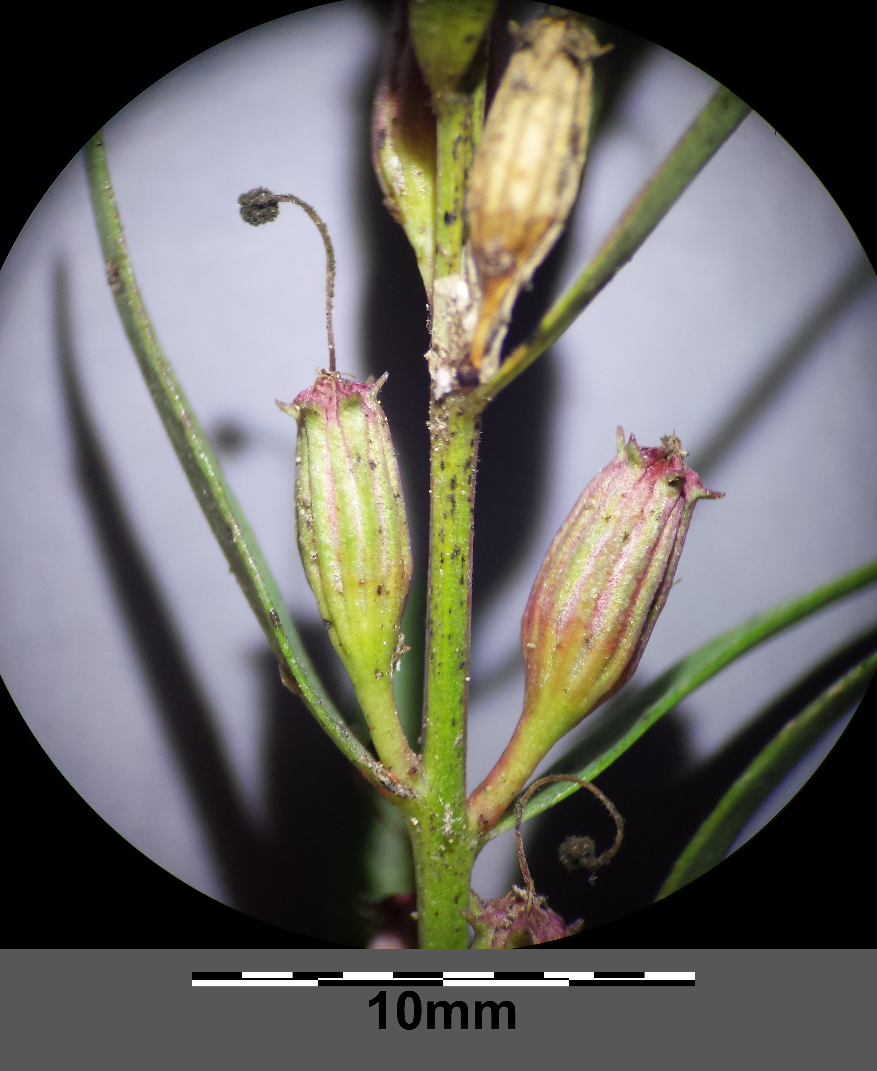 Infructescence Taxonym: Lythrum virgatum ss Fischer et al. EfÖLS 2008 ISBN 978-3-85474-187-9 Location: pond near Michelstetten, district Mistelbach, Lower Austria - ca. 250 m a.s.l. Habitat: shore of a pond